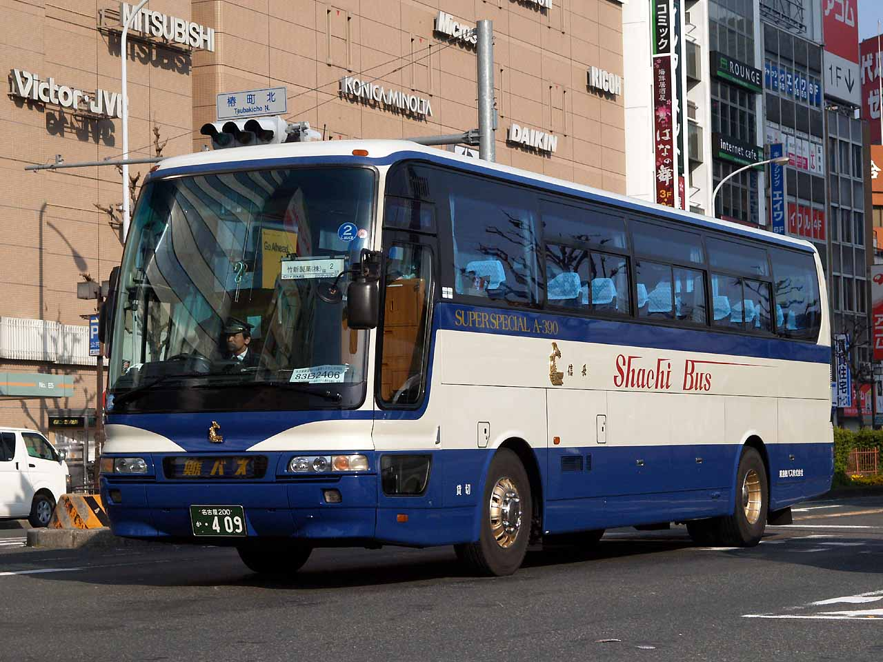 Fleet of Tokyu Shachi Bus sightseeing bus, named from Daimyo dureing the A.D.1500's Japanese Sengoku period. Model: Mitsubishi Fuso Aero Queen I KC-MS822P License plate: ACN200 KA-408（名古屋200か・408） Place: neighbour of JR Nagoya station, Tsubakicho, Nakamura ward, Nagoya city, Aichi Japan